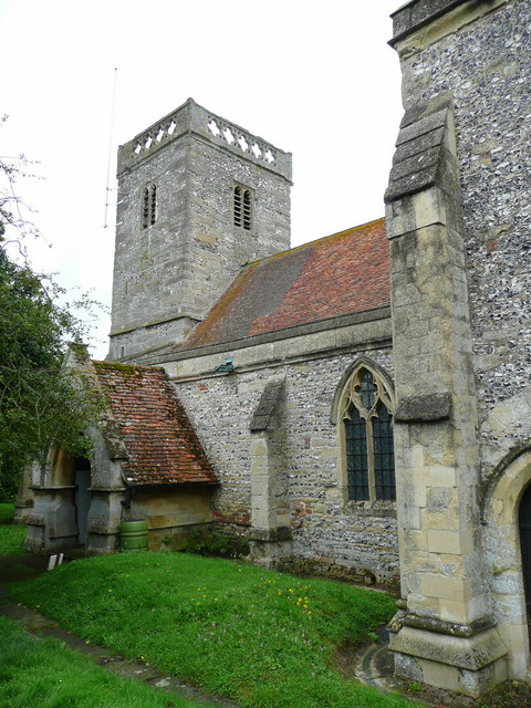 All Saints' church, North Moreton Viewed from the south-east.